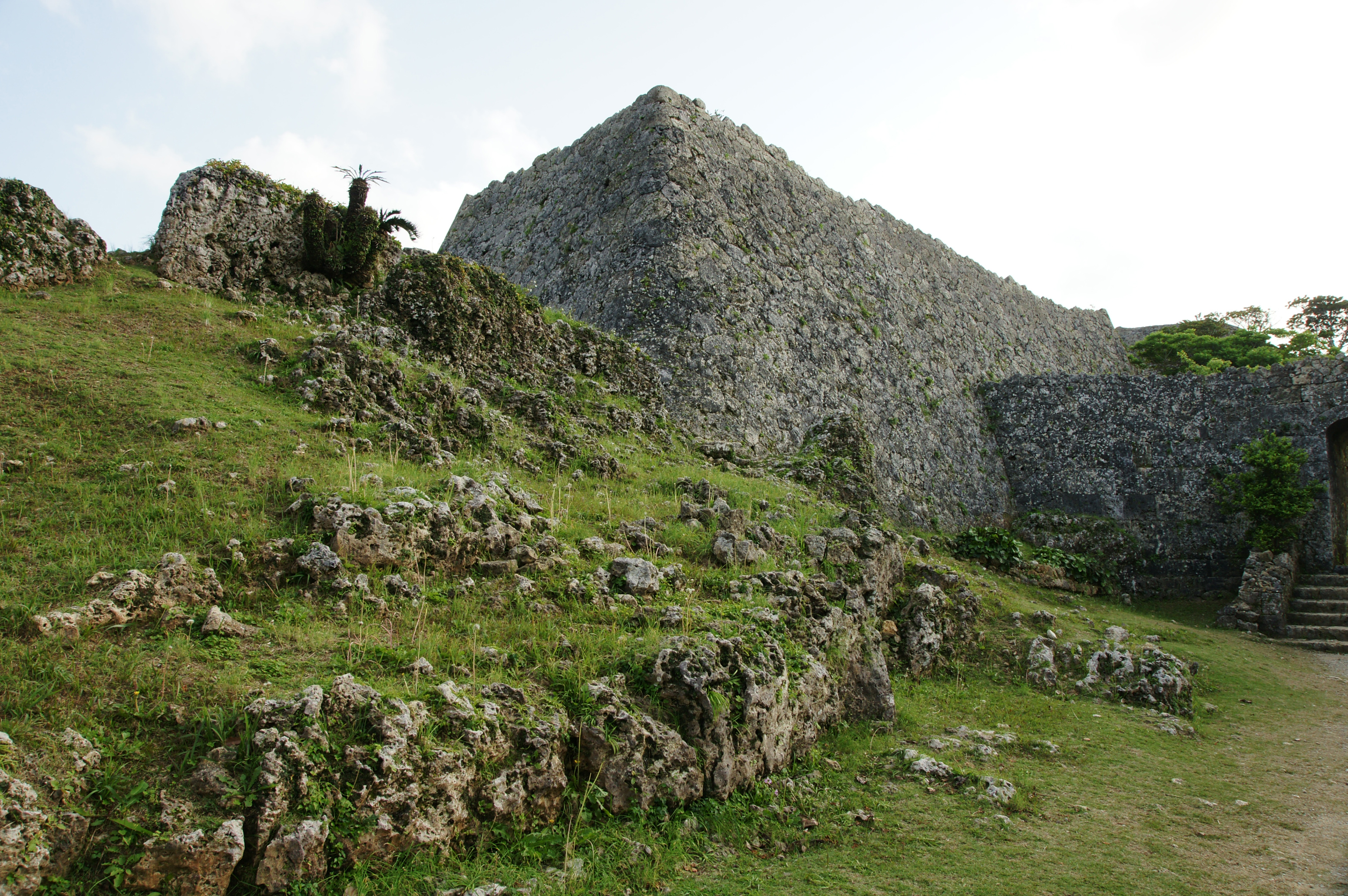 Nakagusuku Castle in Kitanakagusuku and Nakagusuku, Okinawa prefecture, Japan.